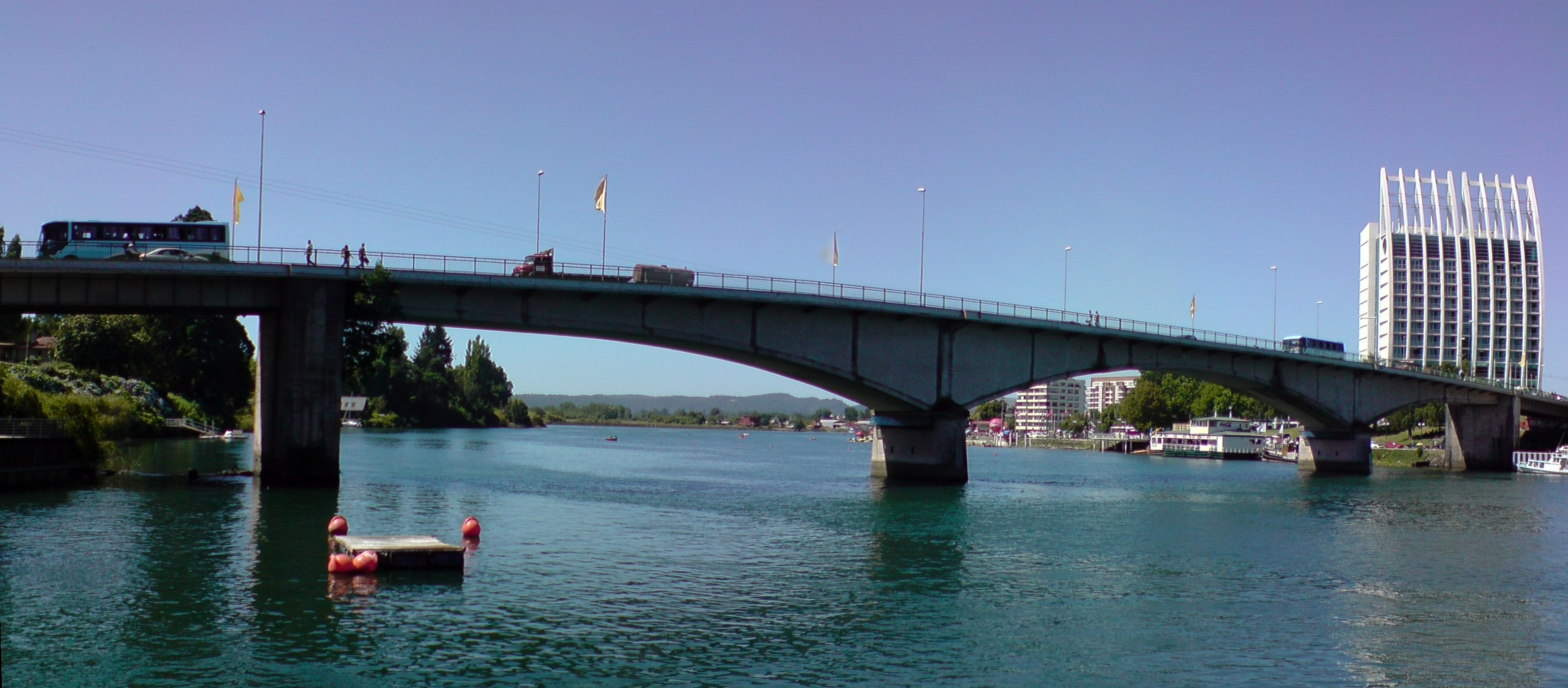 Pedro de Valdivia Bridge